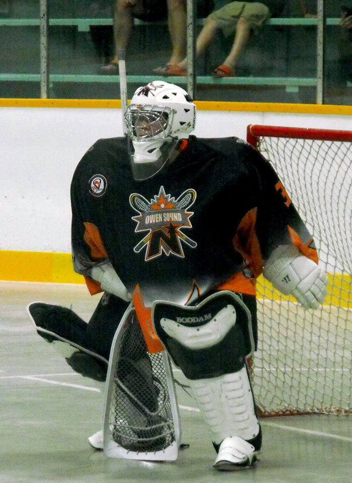 These images of Ontario Junior B Lacrosse Action action during the 2014 season are taken by Devan Mighton.